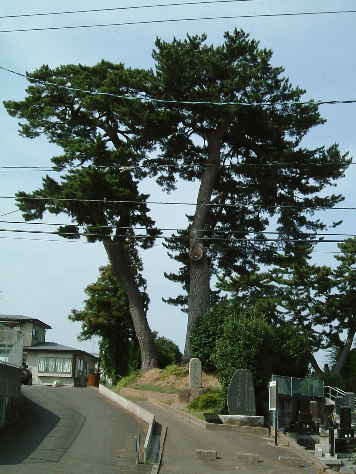 The pine trees of "Sue no Matsuyama" in Tagajō-shi, Miyagi prefecture